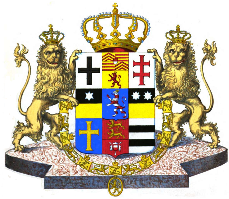 Electorate of Hesse-Kassel